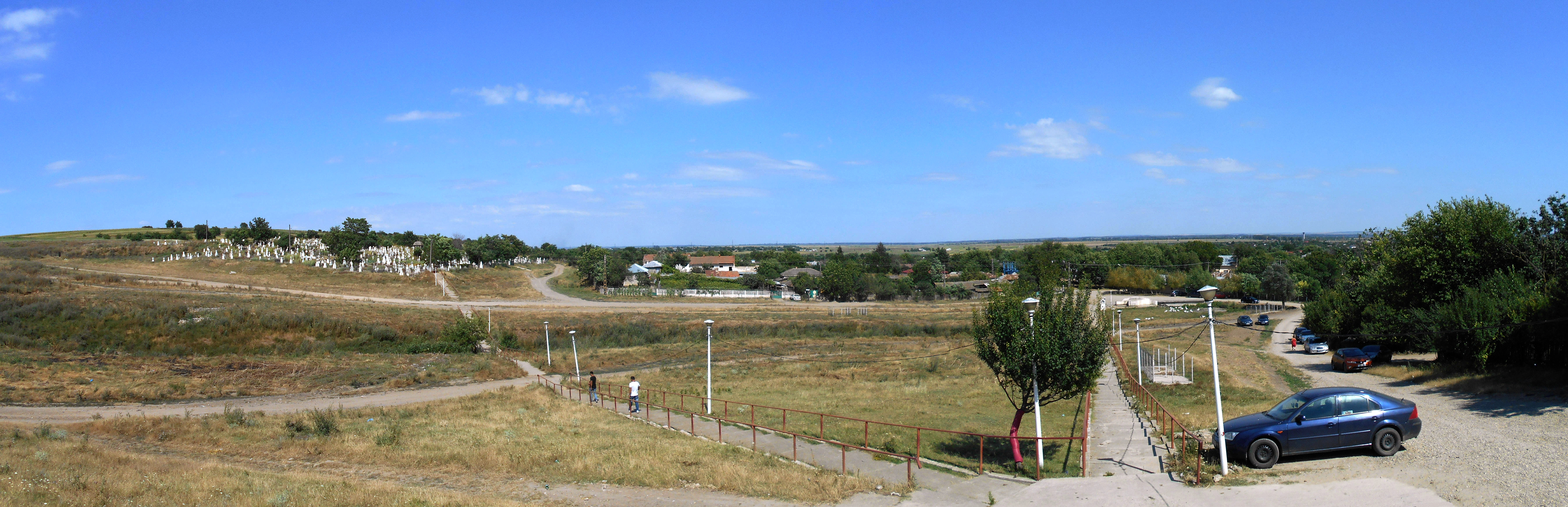 Frătești, Giurgiu - seen from the church